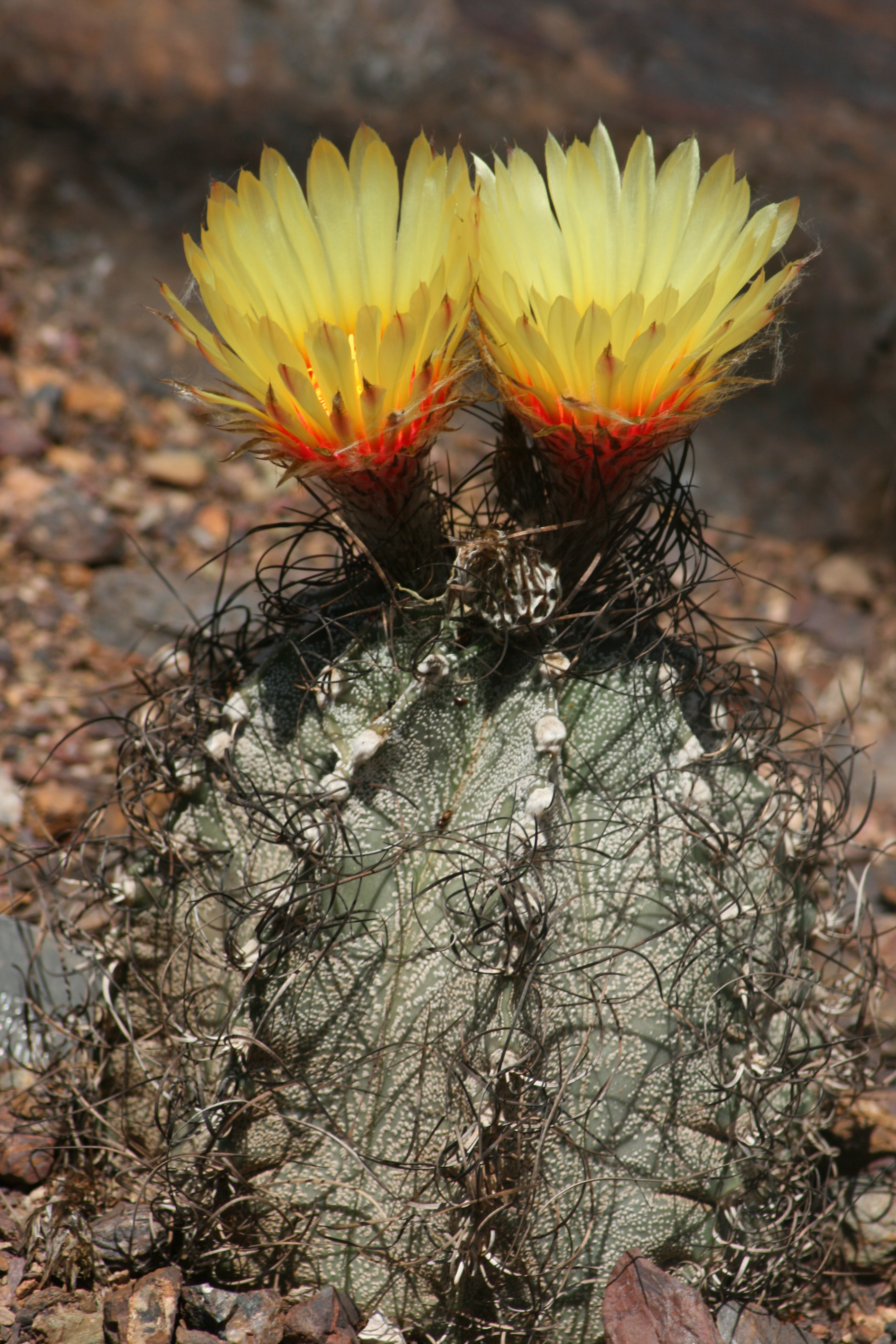 Yellow-orange flowers